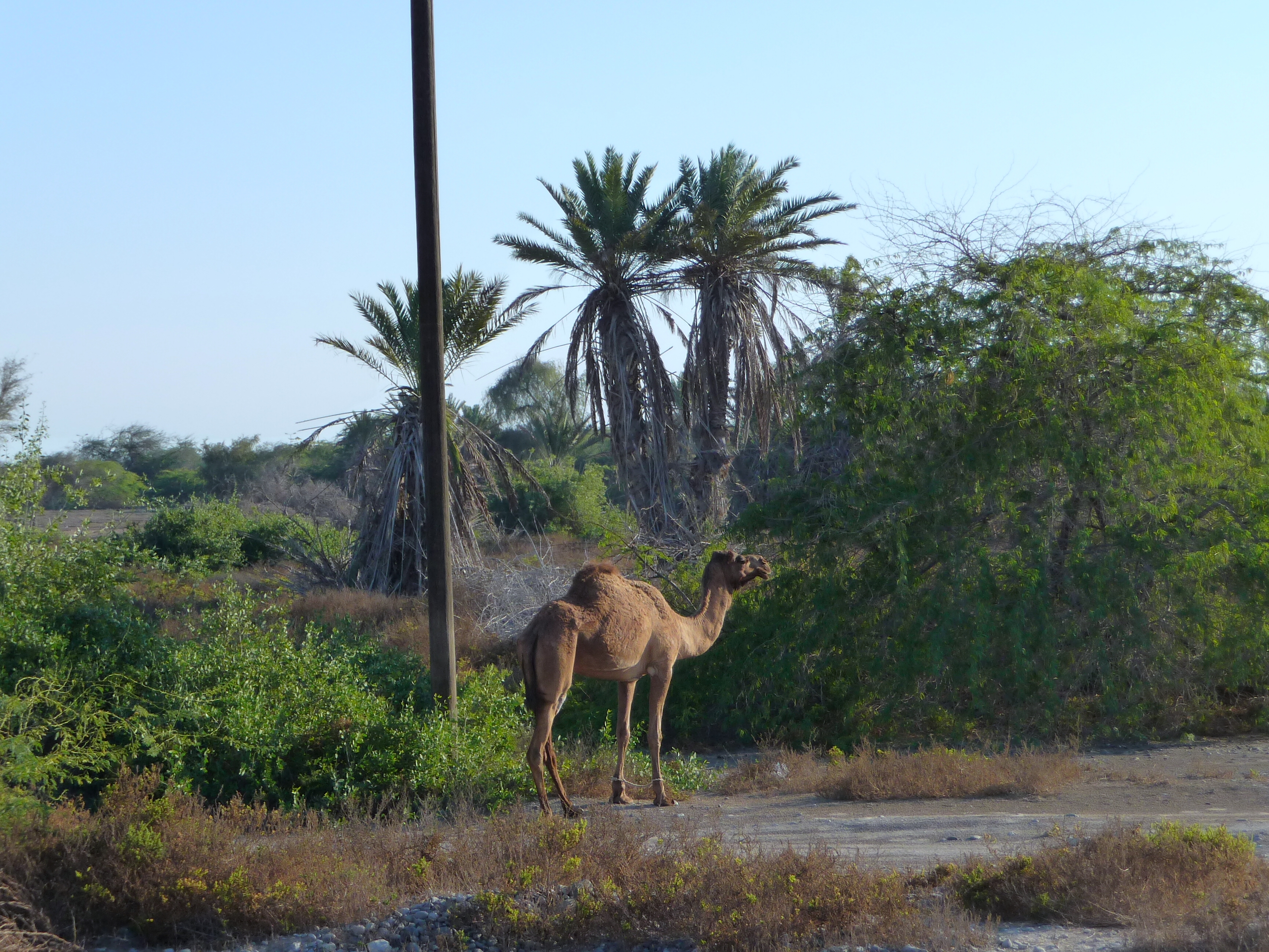 A camel in Wudam As-Sahil (Muscat, Oman).